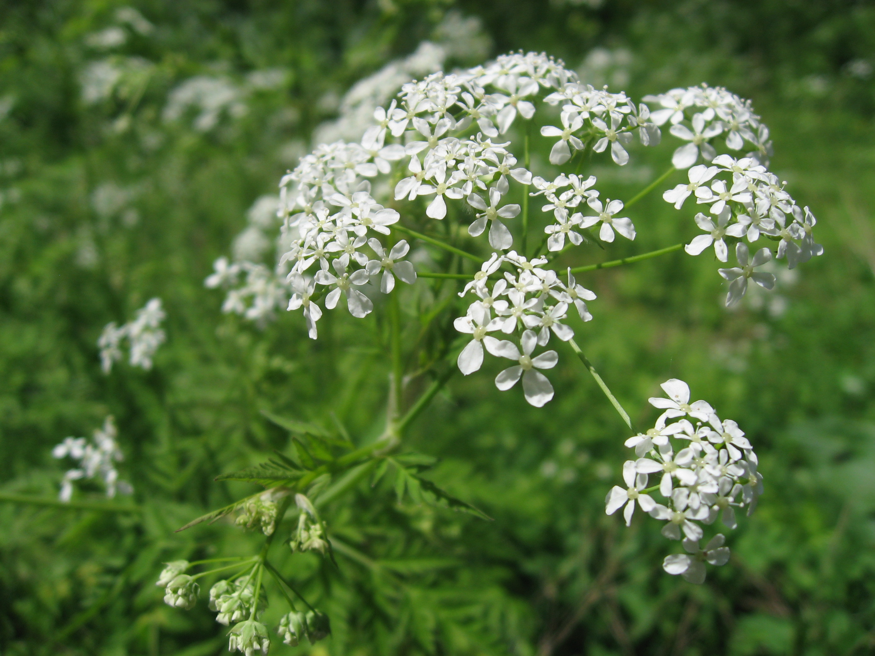 Anthriscus sylvestris, Aizu area, Fukushima pref., Japan